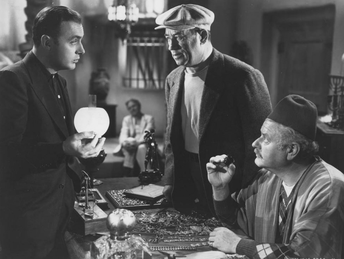 L. to R. : Charles Boyer, Stanley Fields & Alan Hale in Algiers - cropped screenshot